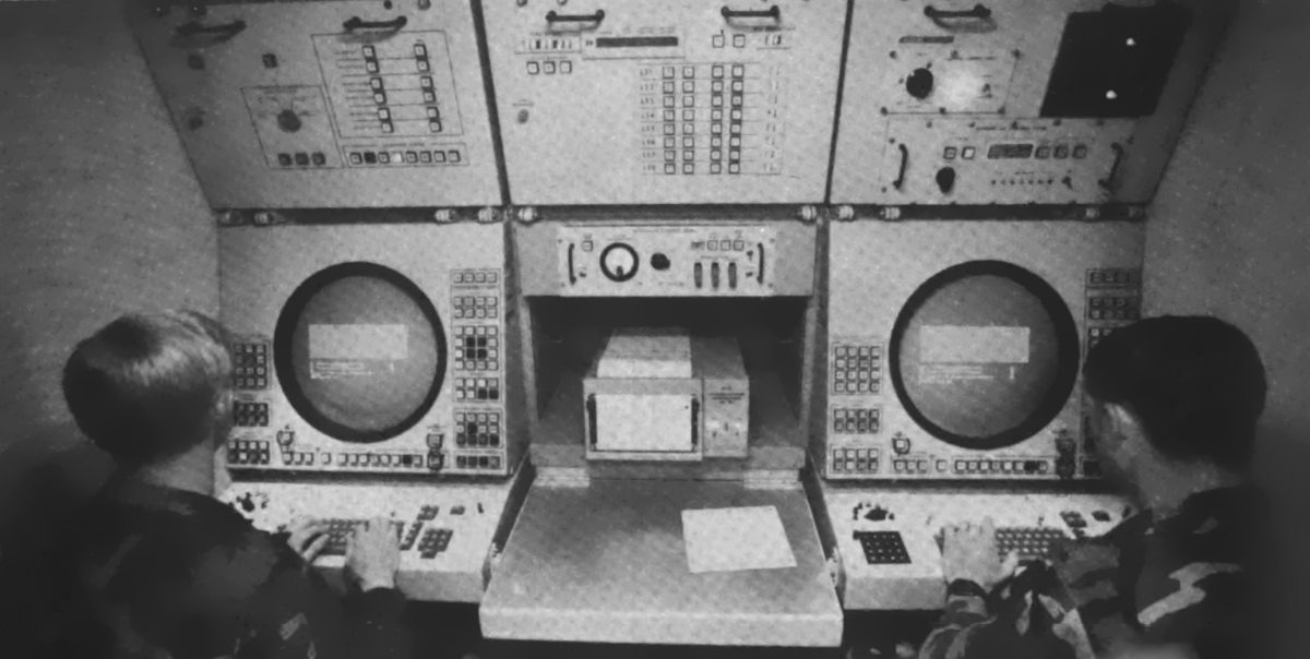 Patriot tactical control compartment